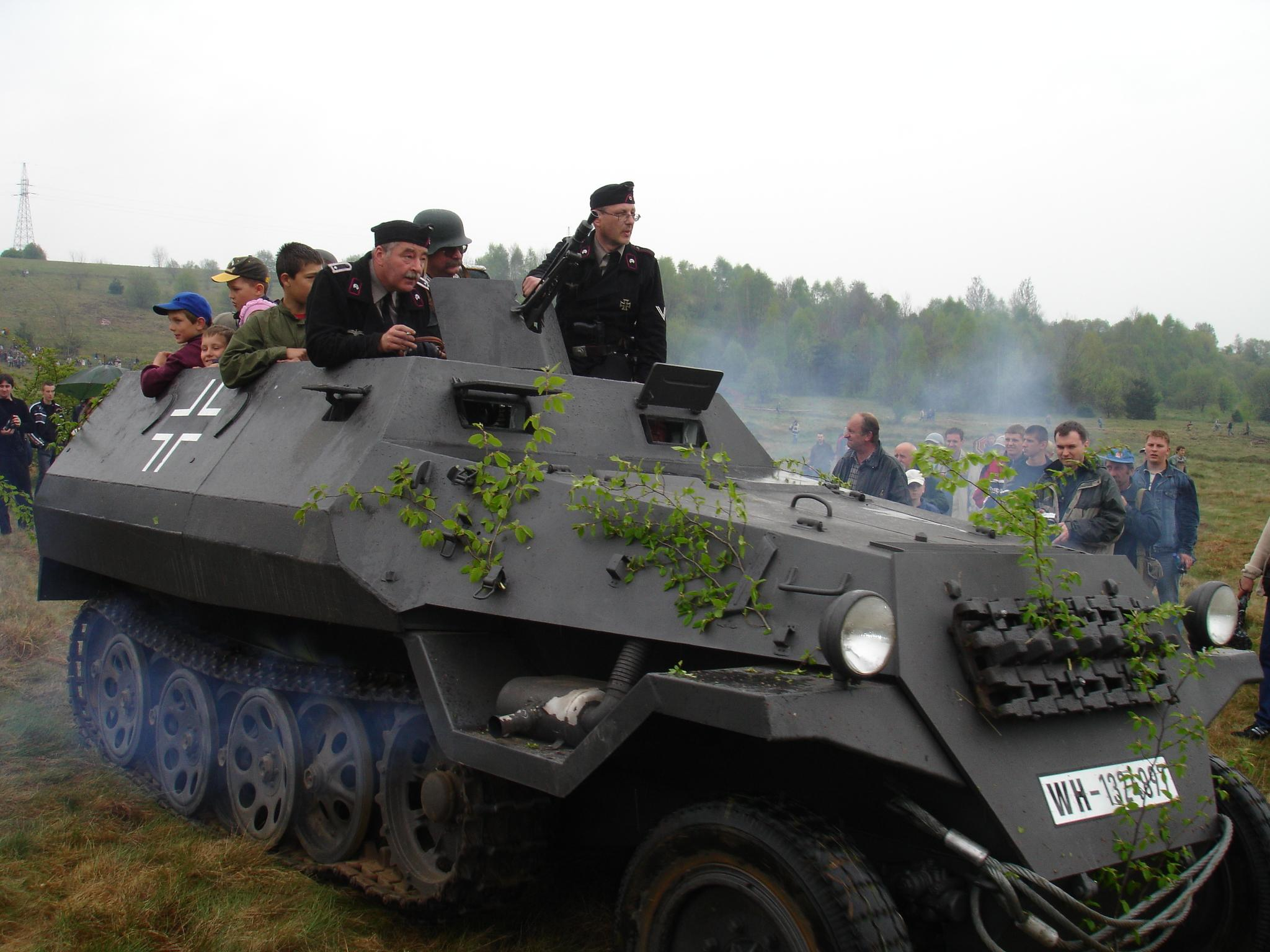 Sanok reenacting group